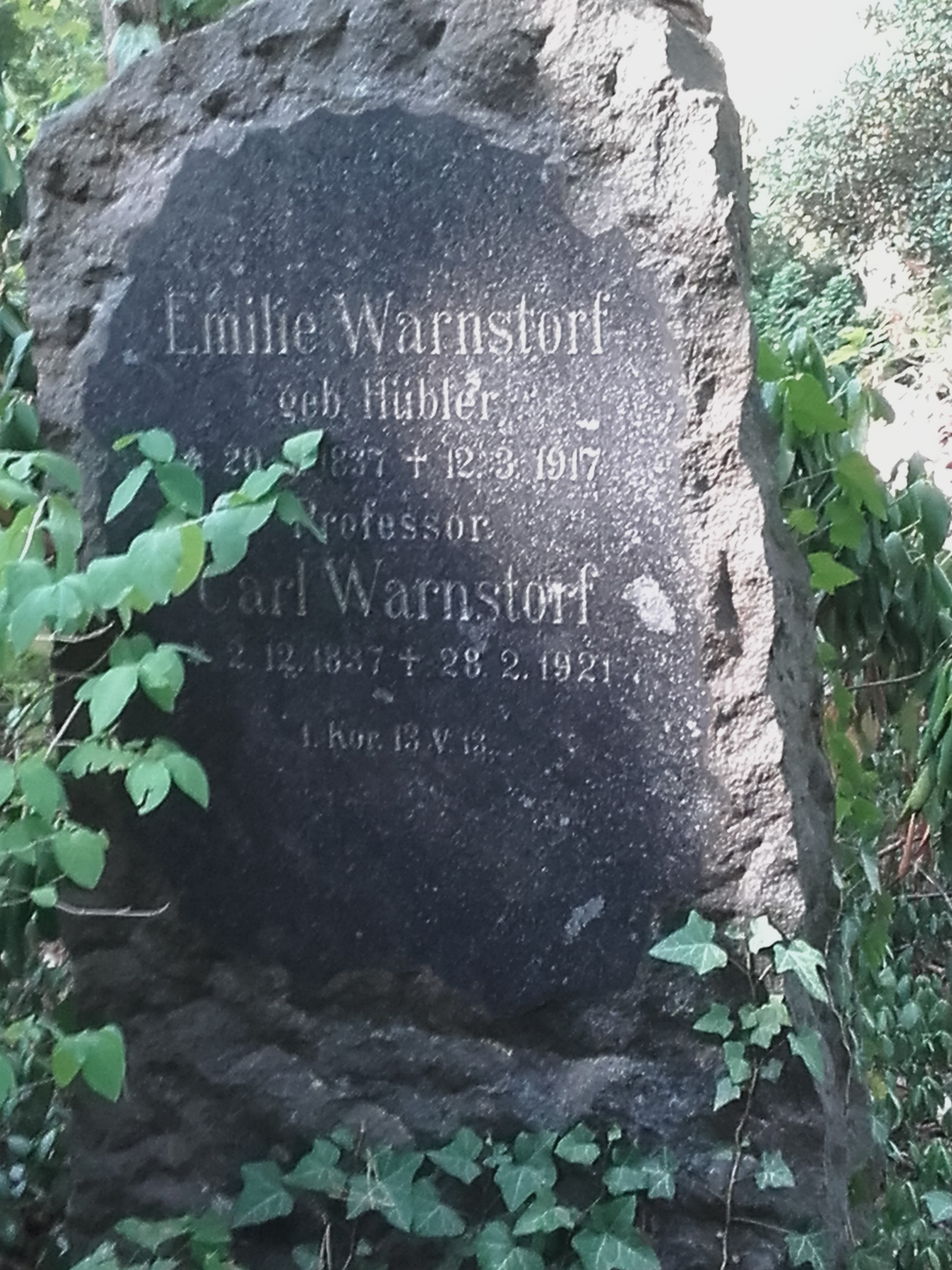 Carl Warnstorf, german botanist, gravestone at Southwestern Cemetery in Stahnsdorf